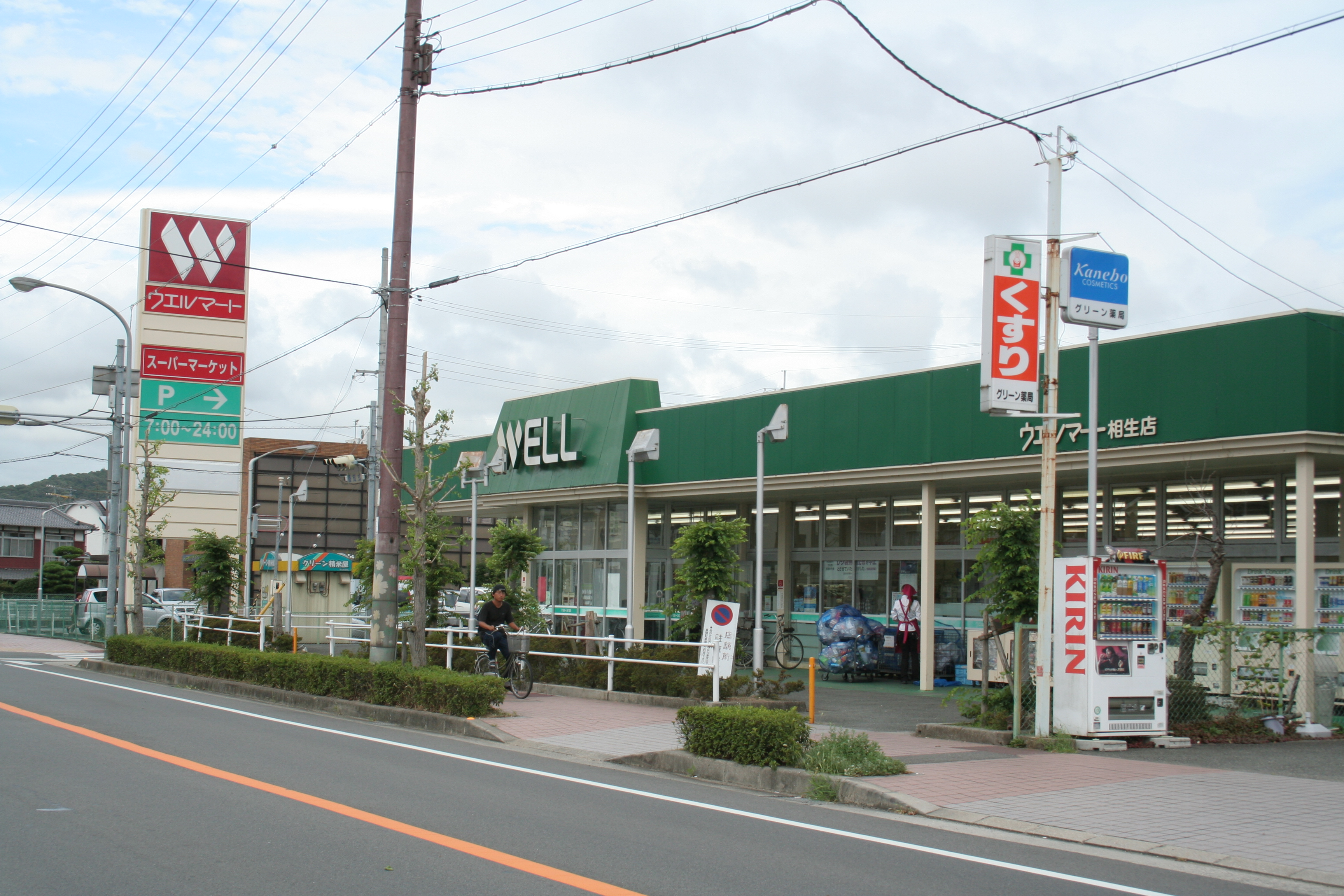 Well Mart Store in Aioi, Hyogo Japan.